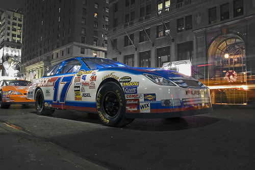 NASCAR's doing a Pit Stop Tour this week in Manhattan. There are over a half-dozen cars spread around midtown-ish for your viewing, picture-taking, and listening pleasure. Every once-in-awhile, they fire one up and rev the engine. omg -LOUD! I used my new gorillapod to shoot this early this morning. Maps & info available here .